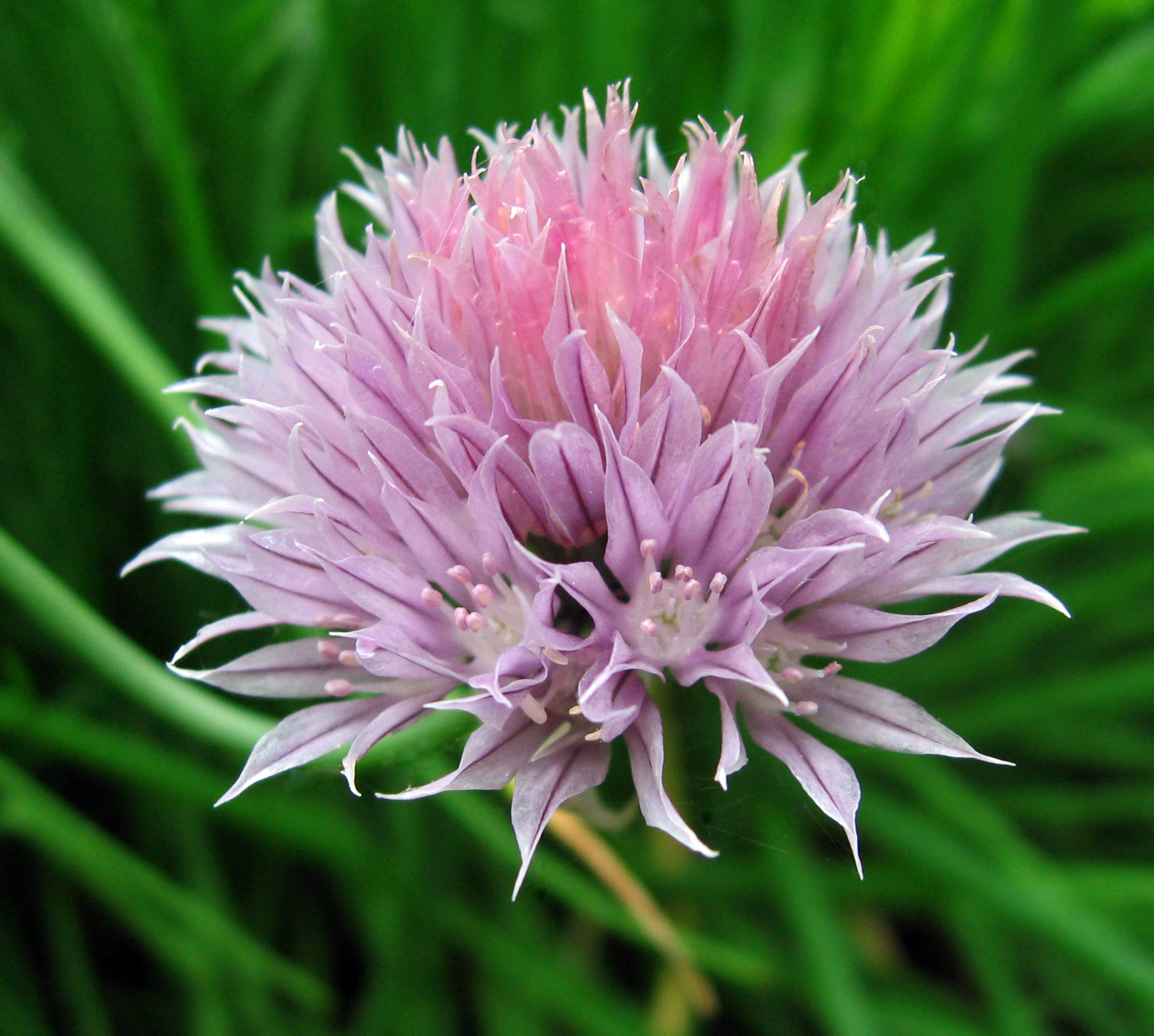 The flower of a cultivated chives plant